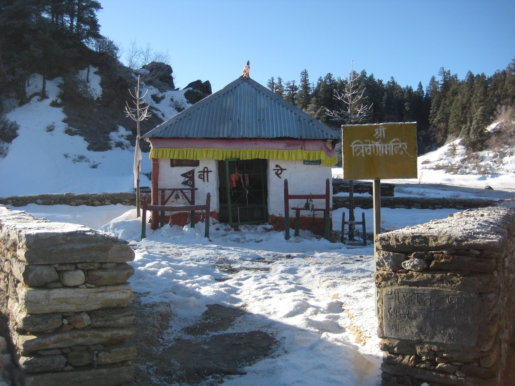 at Khaptad.